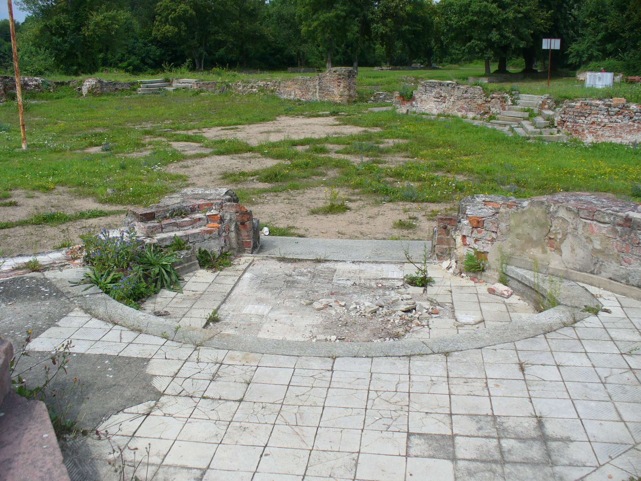 Fortress Küstrin - ruins of castle